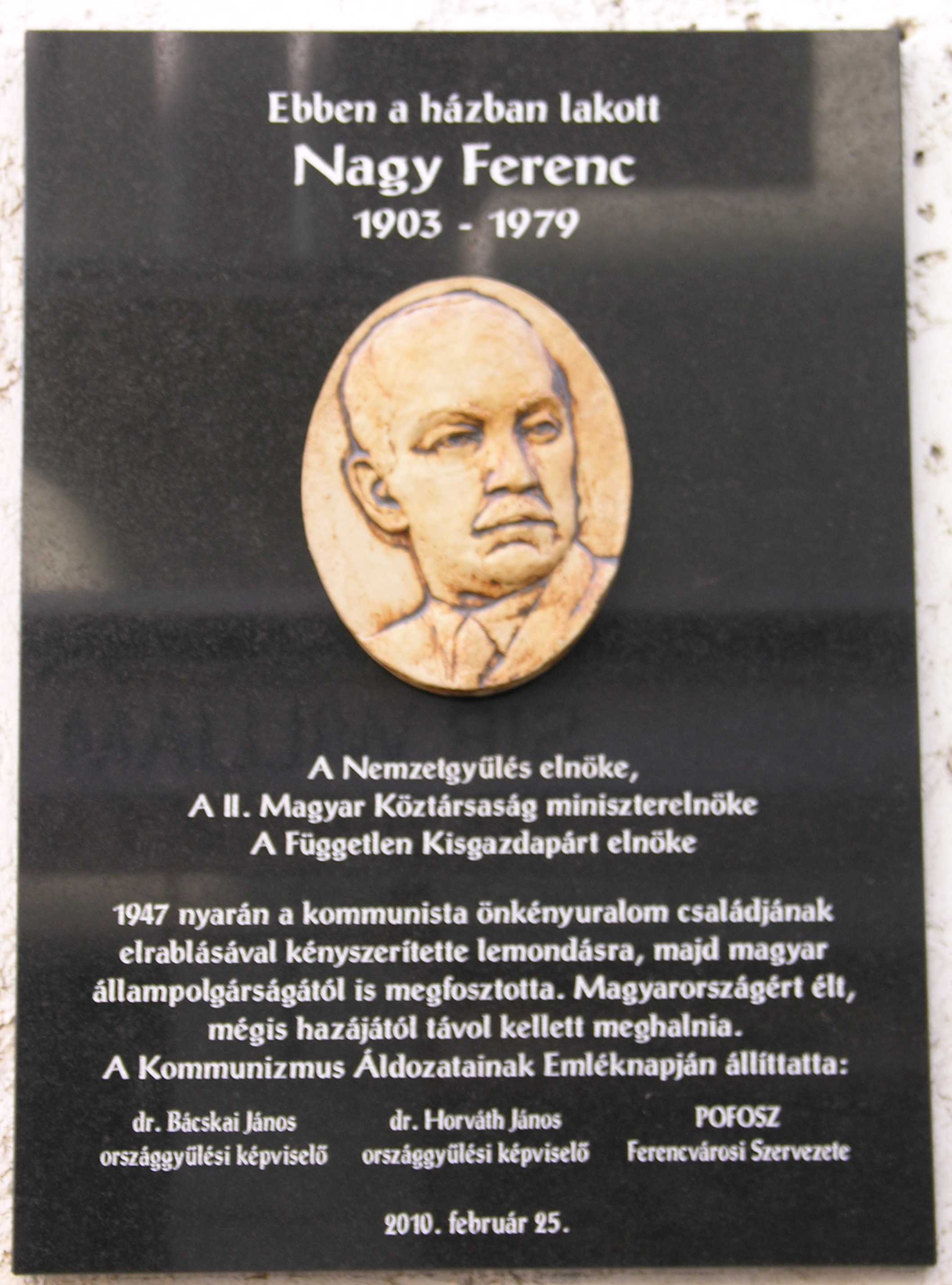 Commemorative plaque of the politician Ferenc Nagy in Budapest District IX, Ráday Street No 9